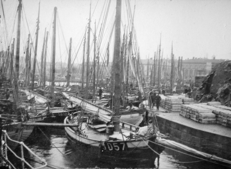 Sailing fishingboat, SD57 Eliada, in Stömstad, aprox 1910